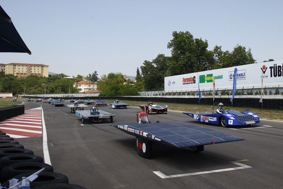 ARIba V